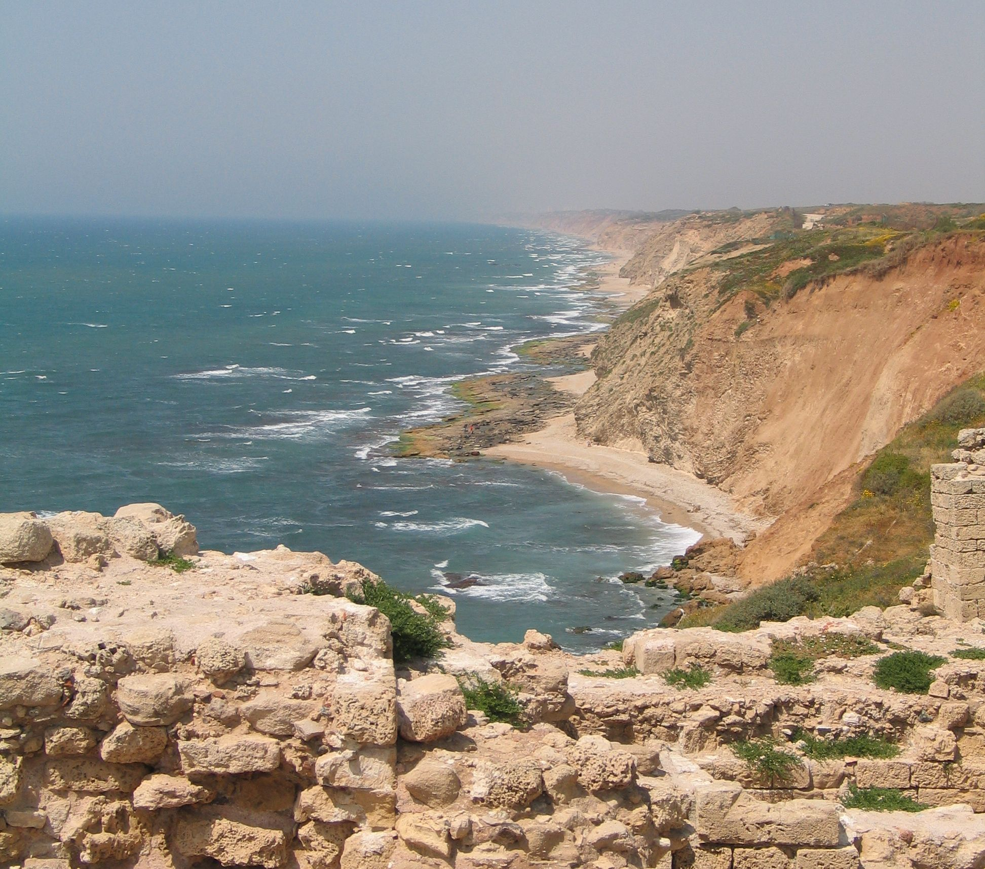 Apollonia National Park, Israel.